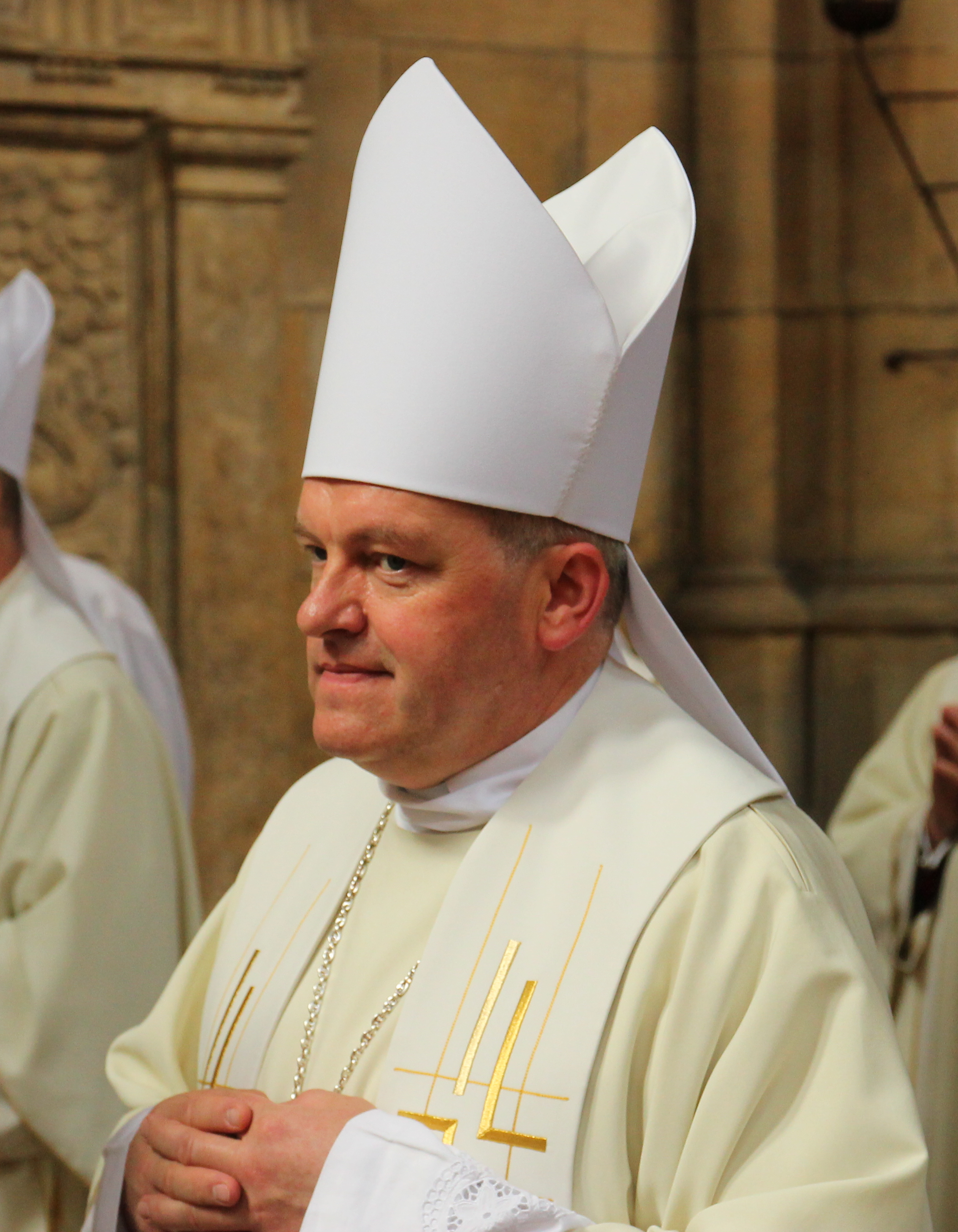 Josef Nuzík in the liturgical procession before the episcopal ordination of Zdenek Wasserbauer held on May 19th, 2018, Prague